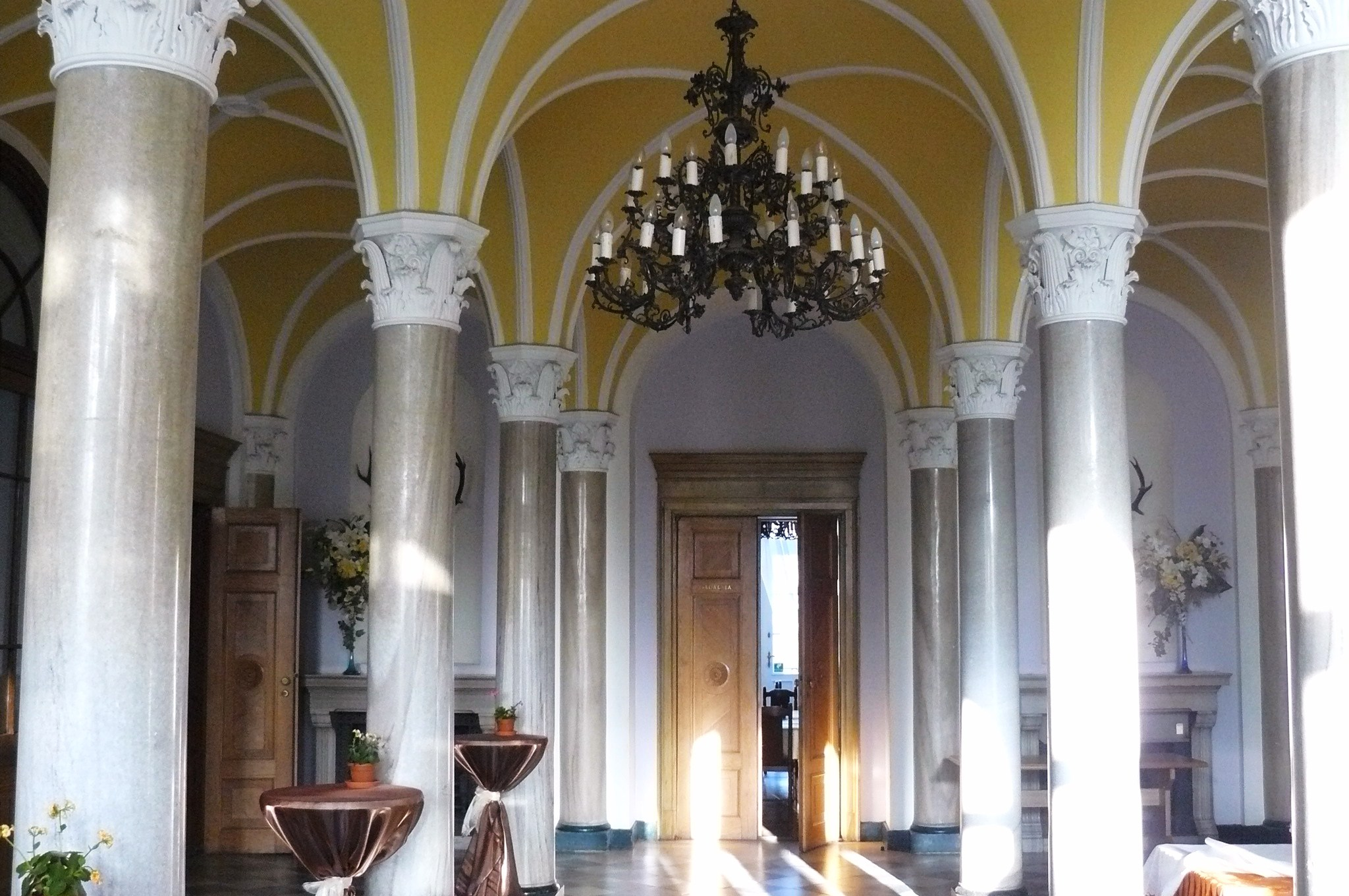 Rokosowo palace, interior.